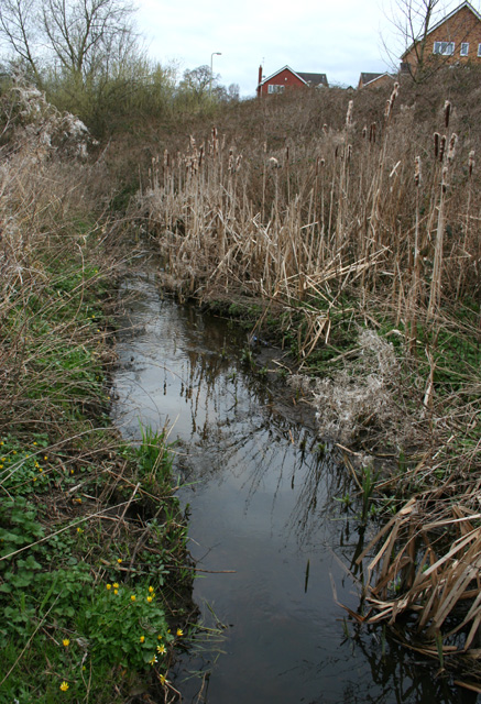 Bulrushes by Stag Brook, Whitchurch. A narrow corridor from the centre of Whitchurch westwards that once formed the route of the Whitchurch Arm of the Llangollen Branch of the Shropshire Union has been designed the Whitchurch Waterway Country Park and protected from development. Stag Brook winds its way through the corridor; at this point, immediately to the west of the bridge carrying Greenfields Rise (houses on the right), the brook is lined with bulrushes and clumps of celandine. The area forms a habitat for water voles. See also 1232134